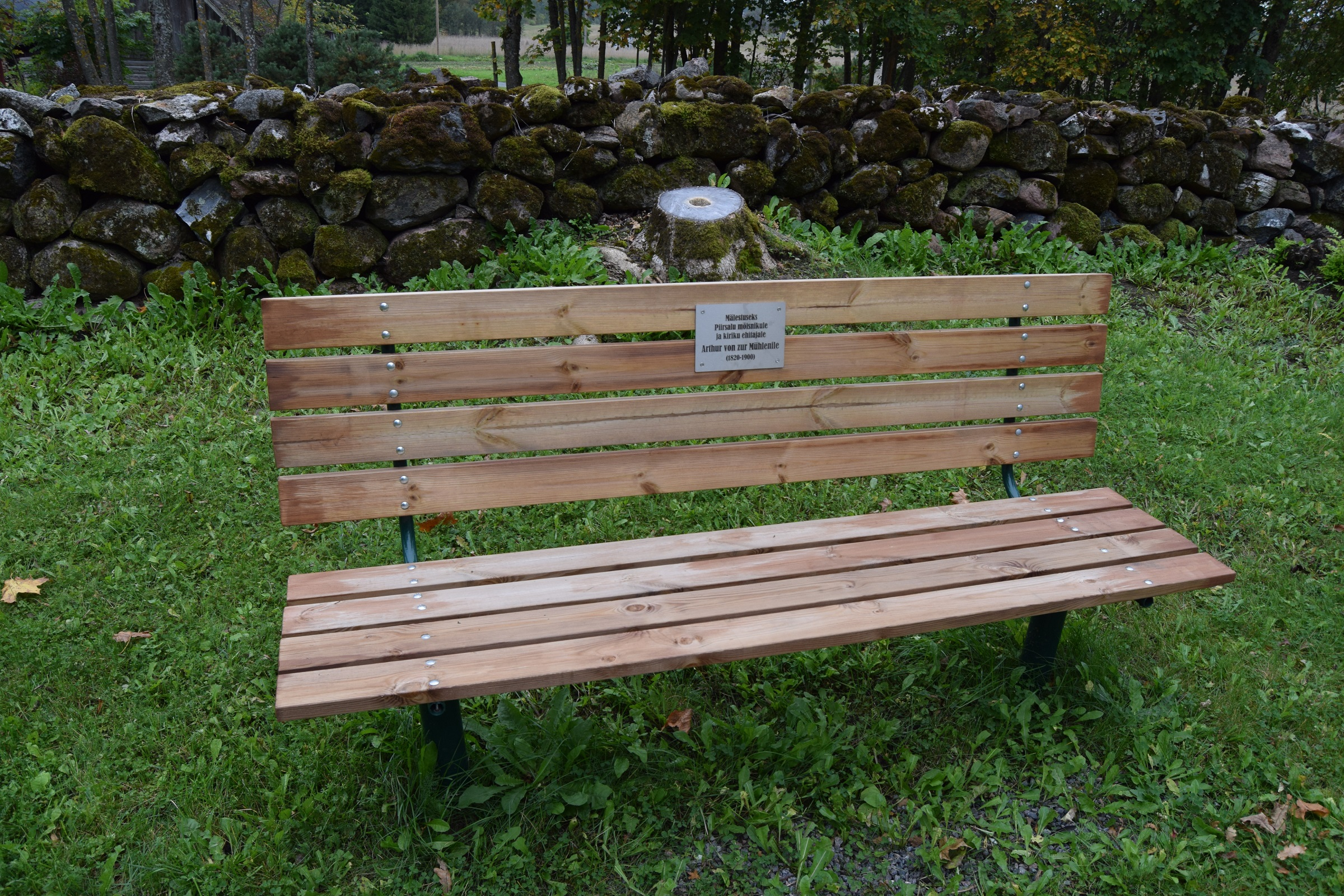 Mühleni pink